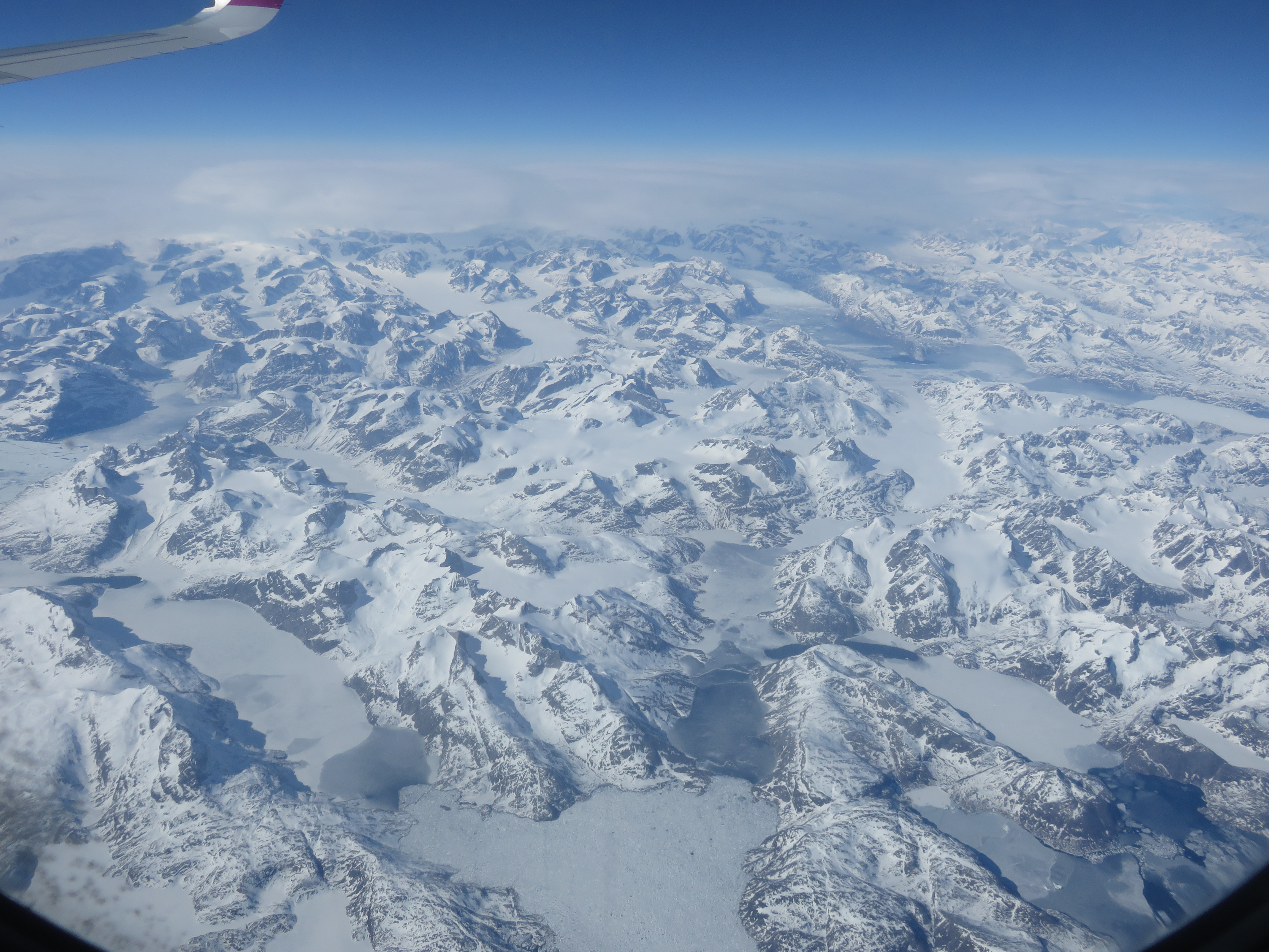 Aerial view of Garm Glacier in Eastern Greenland in 2018